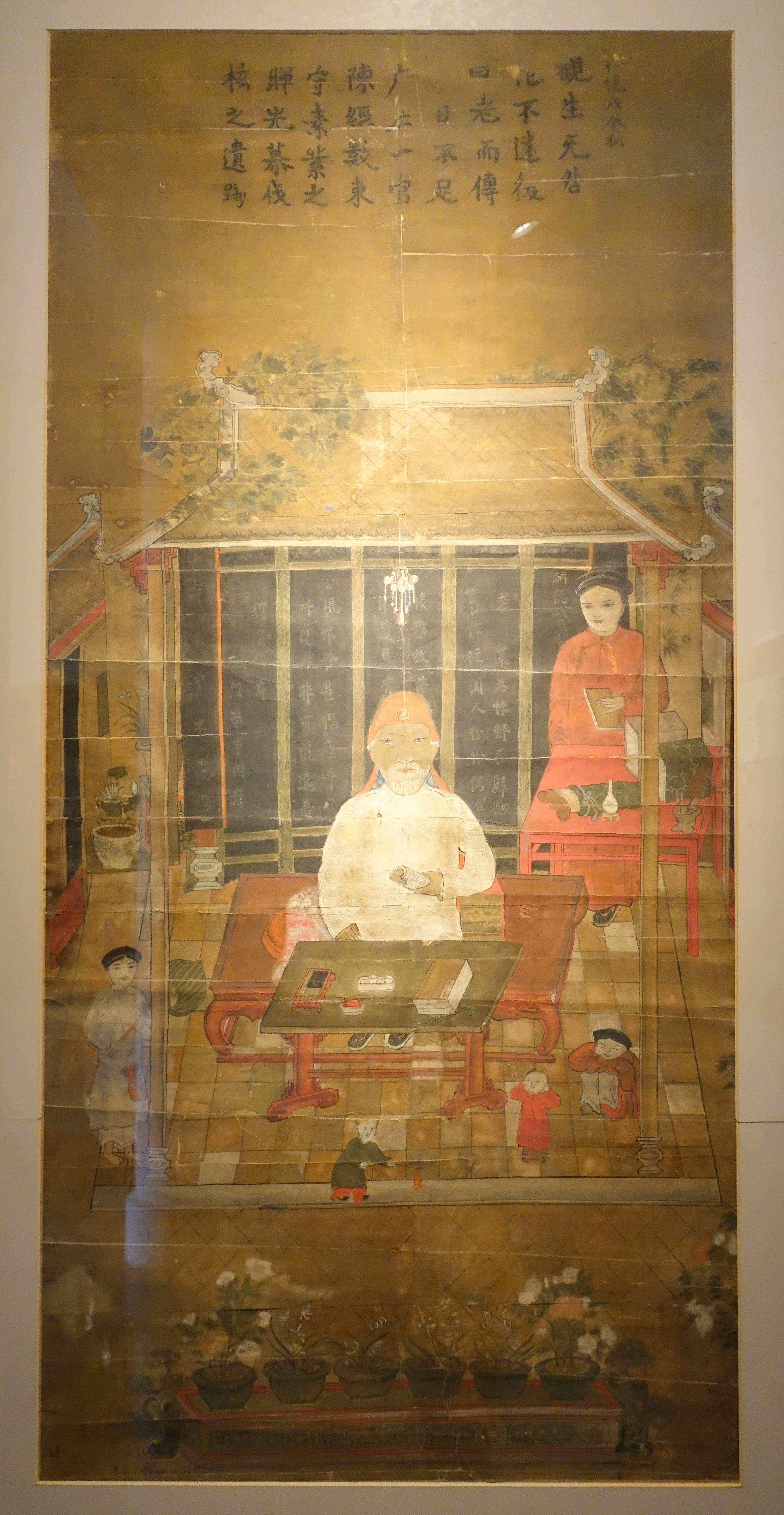 A portrait painting of mandarin Nguyễn Văn Siêu when he was a teacher.